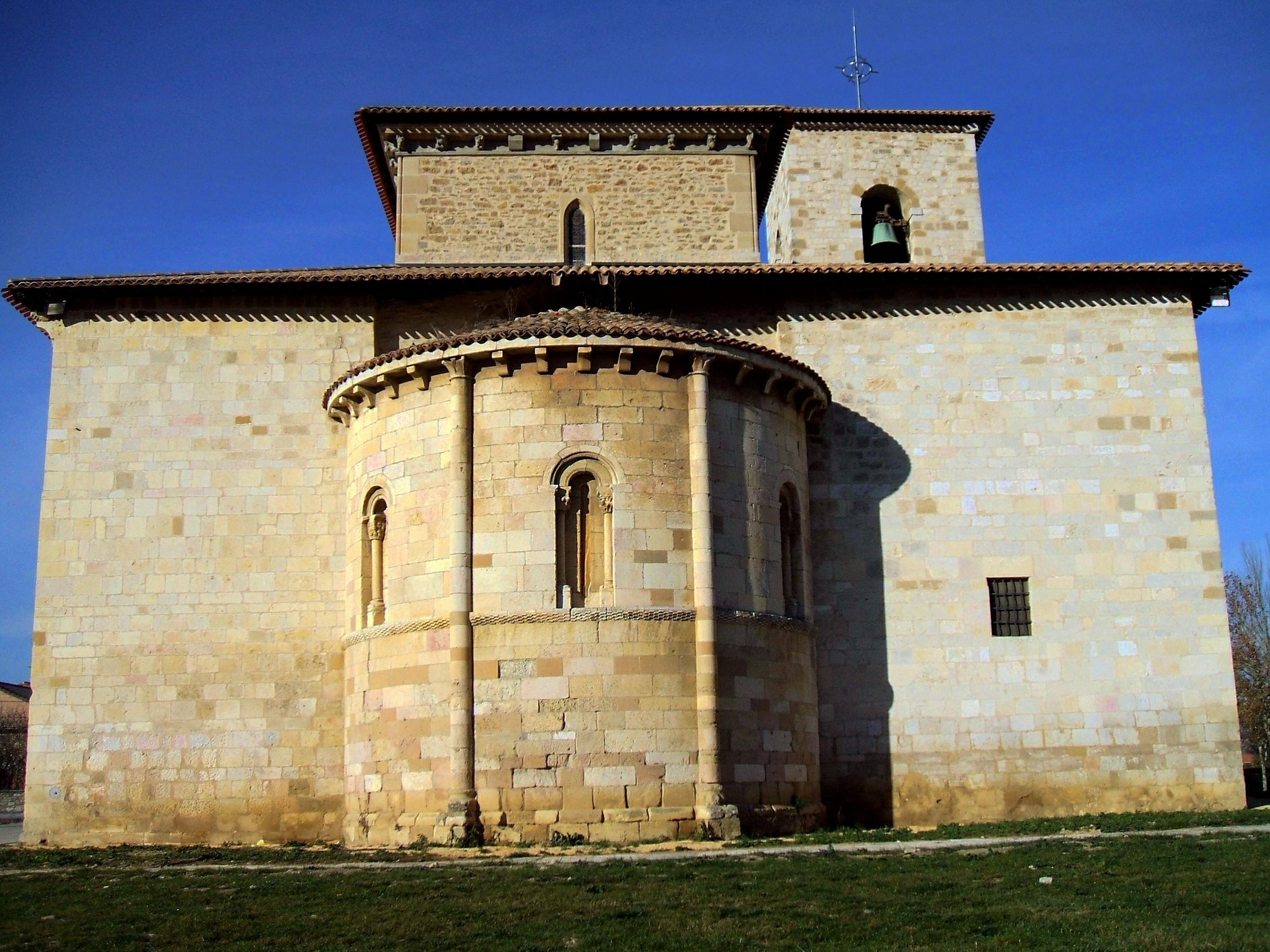 Ábside románico de la Basílica de San Prudencio de Armentia (Vitoria-Gasteiz, País Vasco, España)